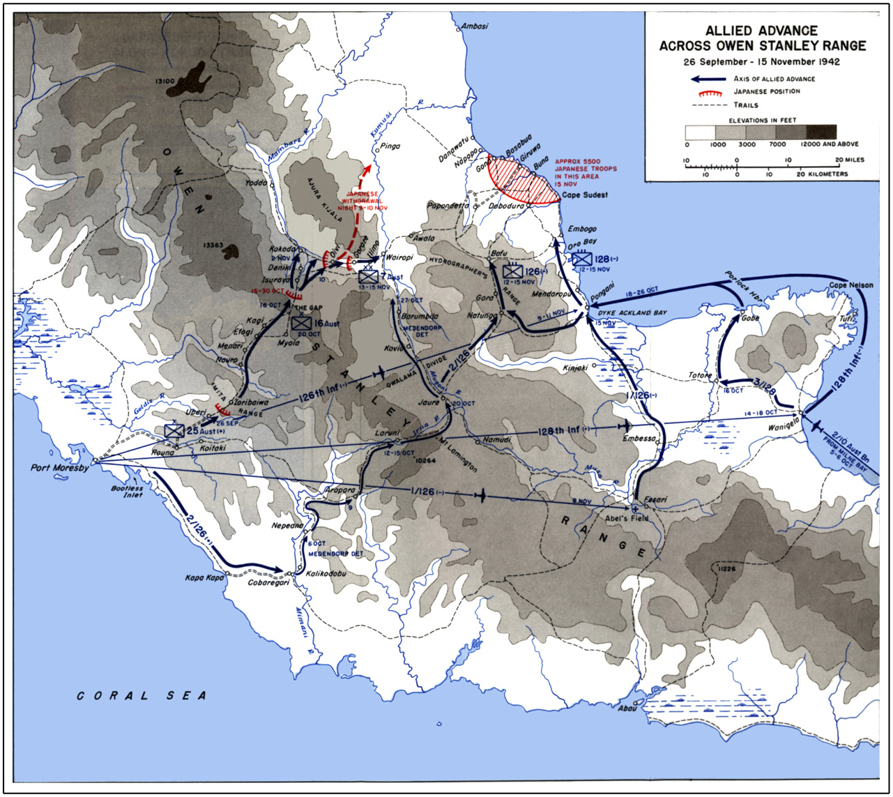 Allied Advance Across Owen Stanley Range 26 September - 15 November 1942. Papua New Guinea, World War II